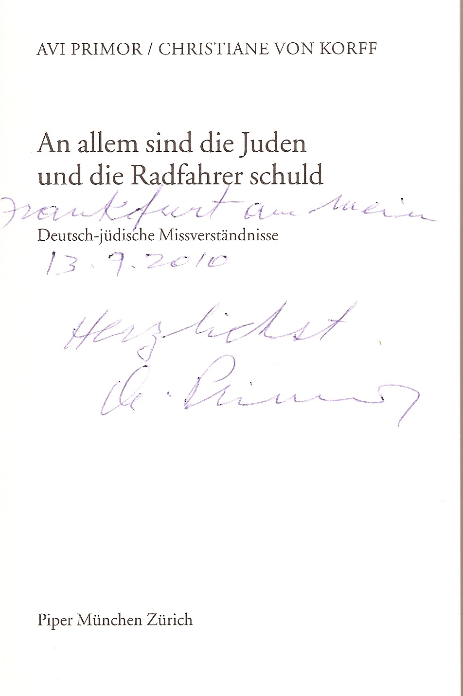 Autograph from Avi Primor (Israeli publicist and former diplomat), 2010 in Frankfurt am Main, Germany.